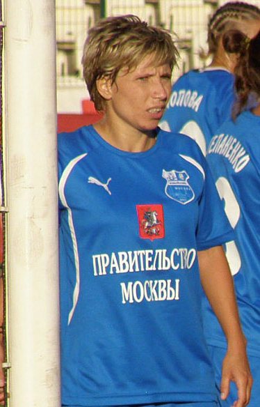 Galina Komarova as a player of FC ShVSM Izmailovo